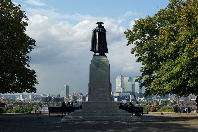 View From General Wolfe's Statue, Greenwich General Wolfe gets a great view over Greenwich, and towards Canary Wharf, from the plinth.